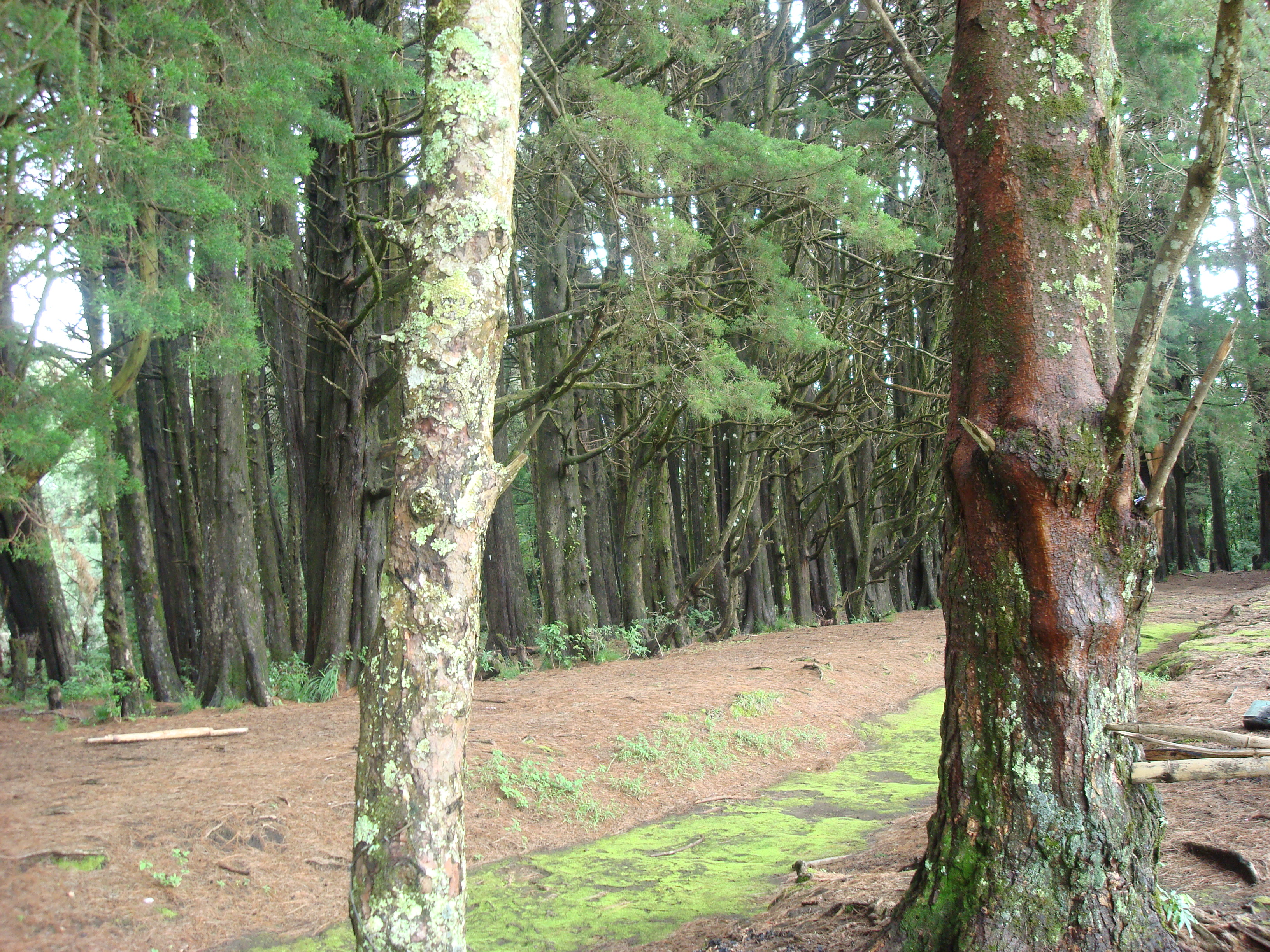 Bosque de la Hoja